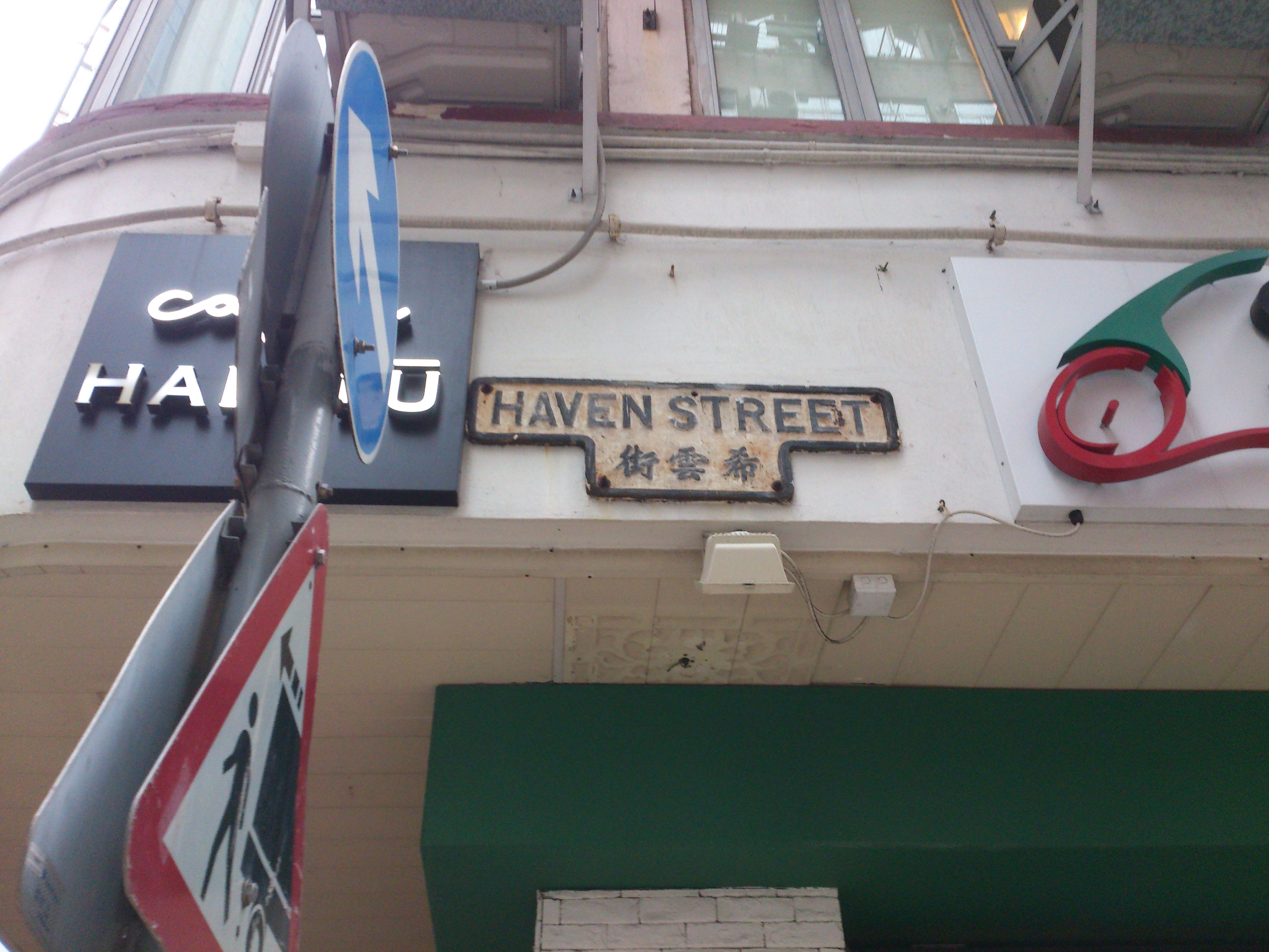 Haven Road Pre-WWII Style Street Name Sign